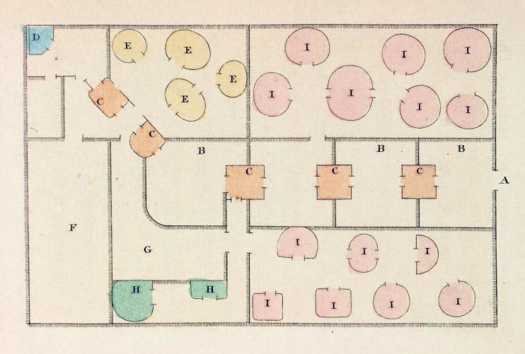 Plan of the Residence of the Bour Sine at Joal